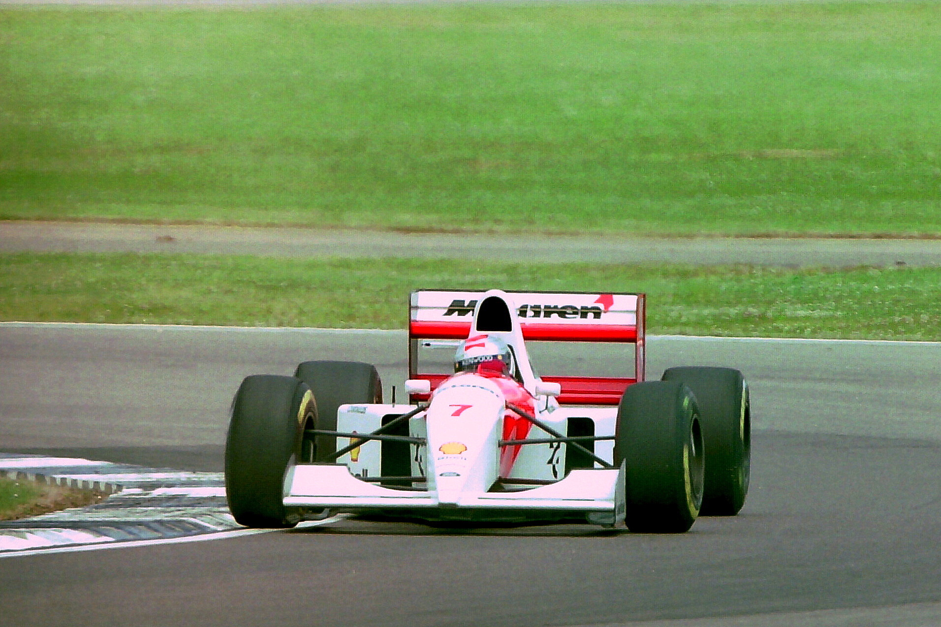 Michael Andretti - Mclaren MP4-8 during practice for the 1993 British Grand Prix